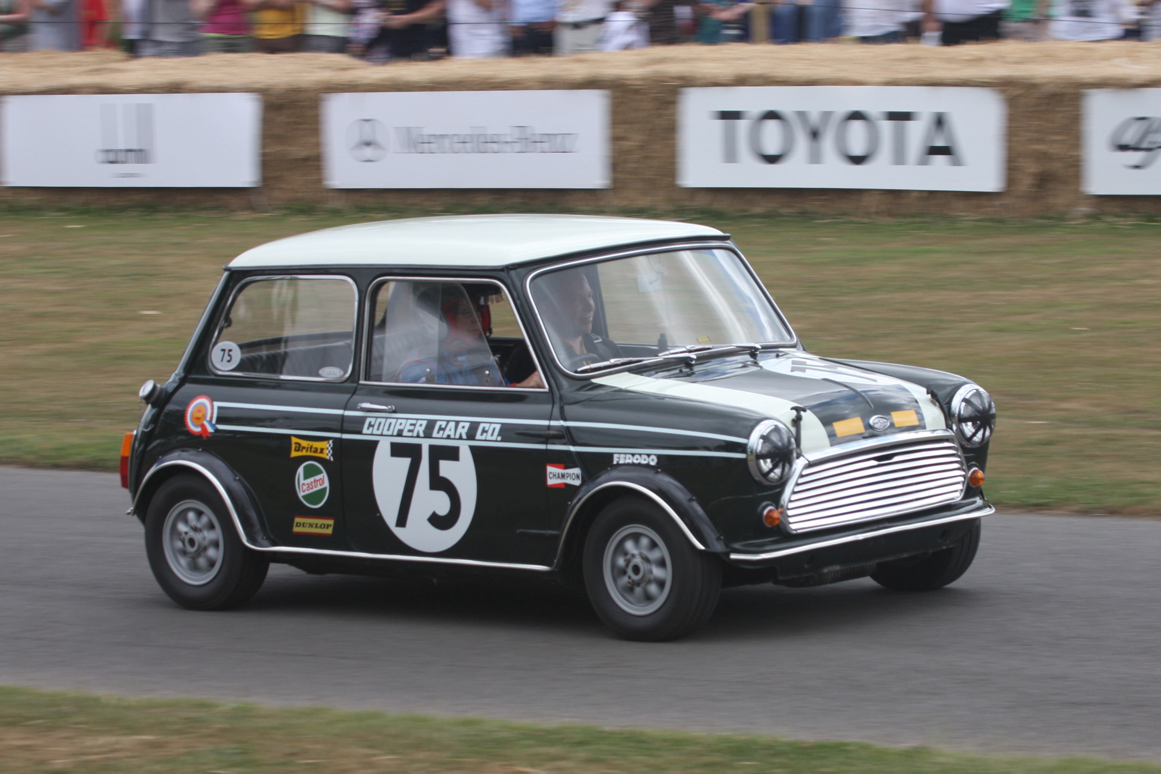 1968 Morris Mini Cooper S